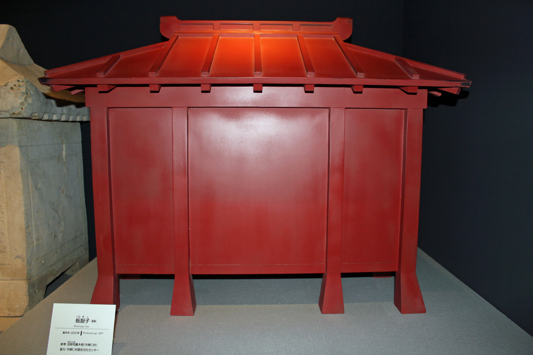 Wood type Urns, Okinawa Prefectural Museum & Art Museum